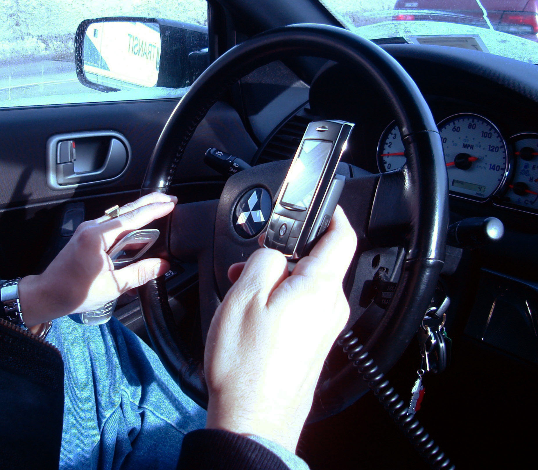 Driver in a Mitsubishi Galant using a hand held mobile phone violating New York State law.